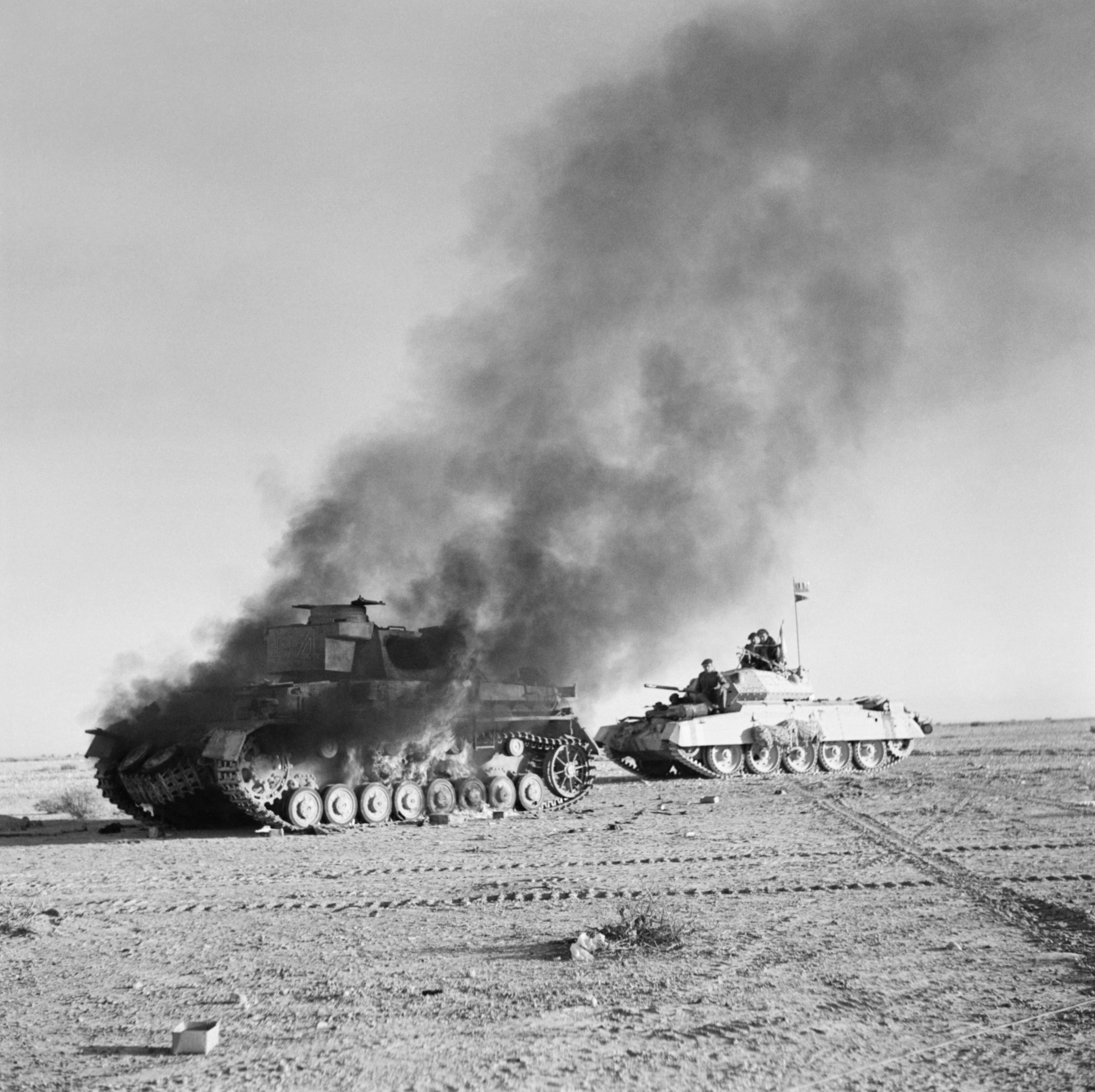 British Crusader tank passes a burning German Panzer IV tank during Operation Crusader